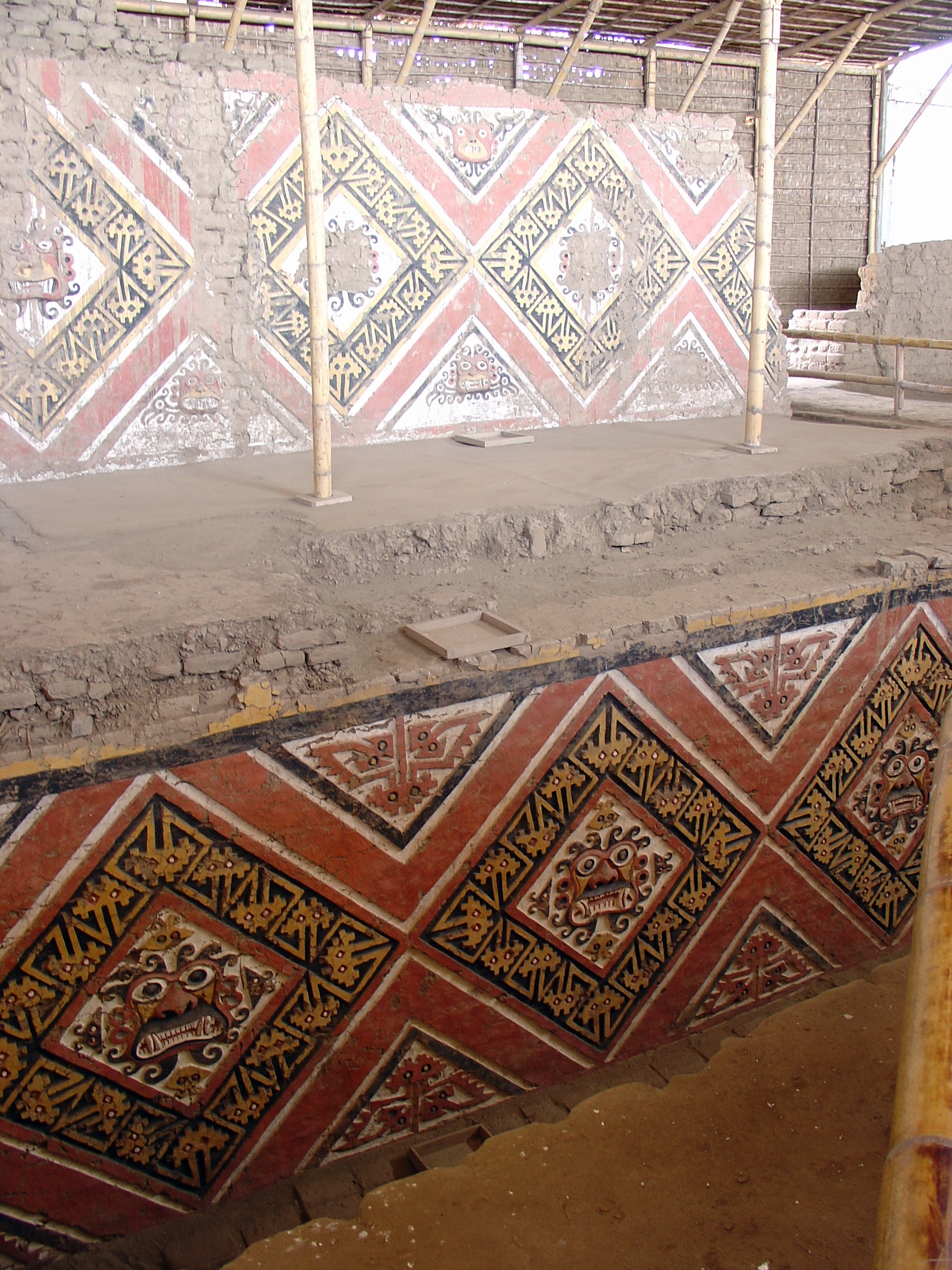 Murals on the Huaca de la Luna, Peru